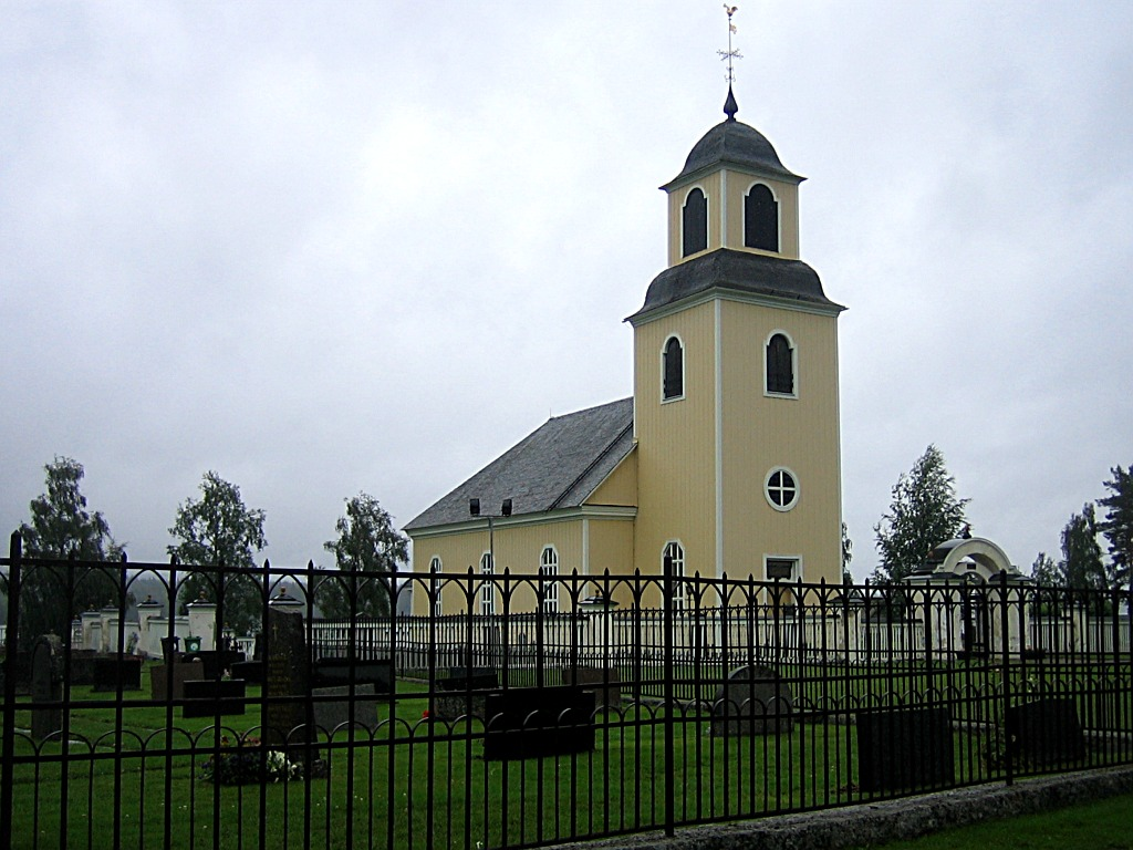 Bodsjö church in Bodsjö, Jämtland, Sweden